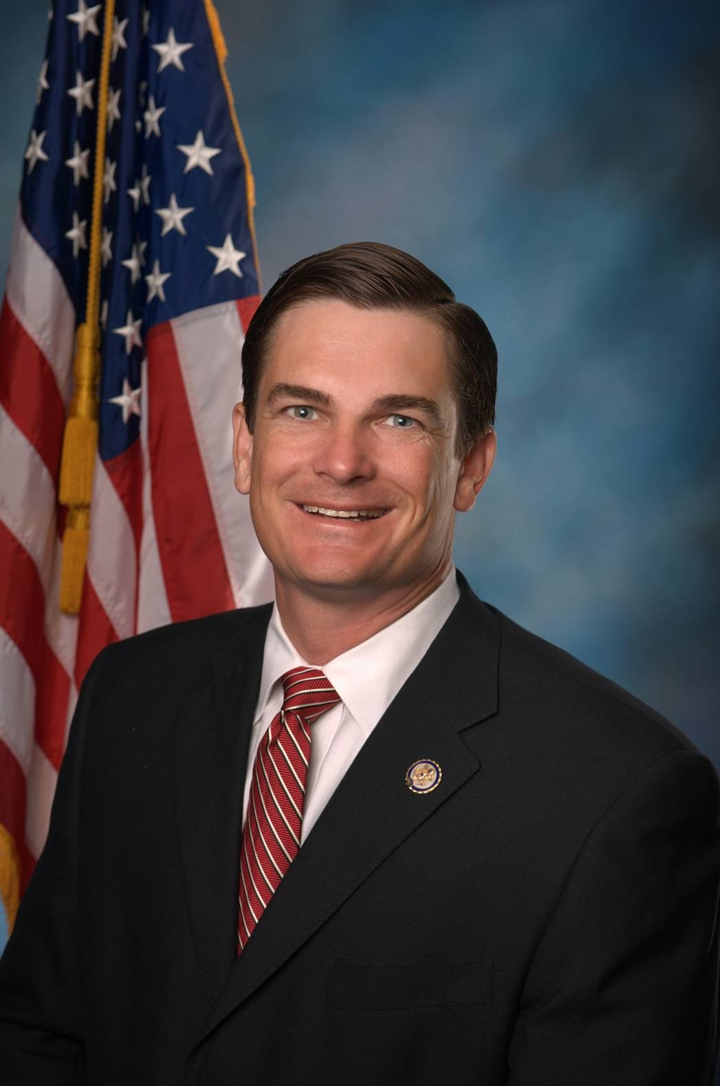 Official portrait of US Congressman Austin Scott